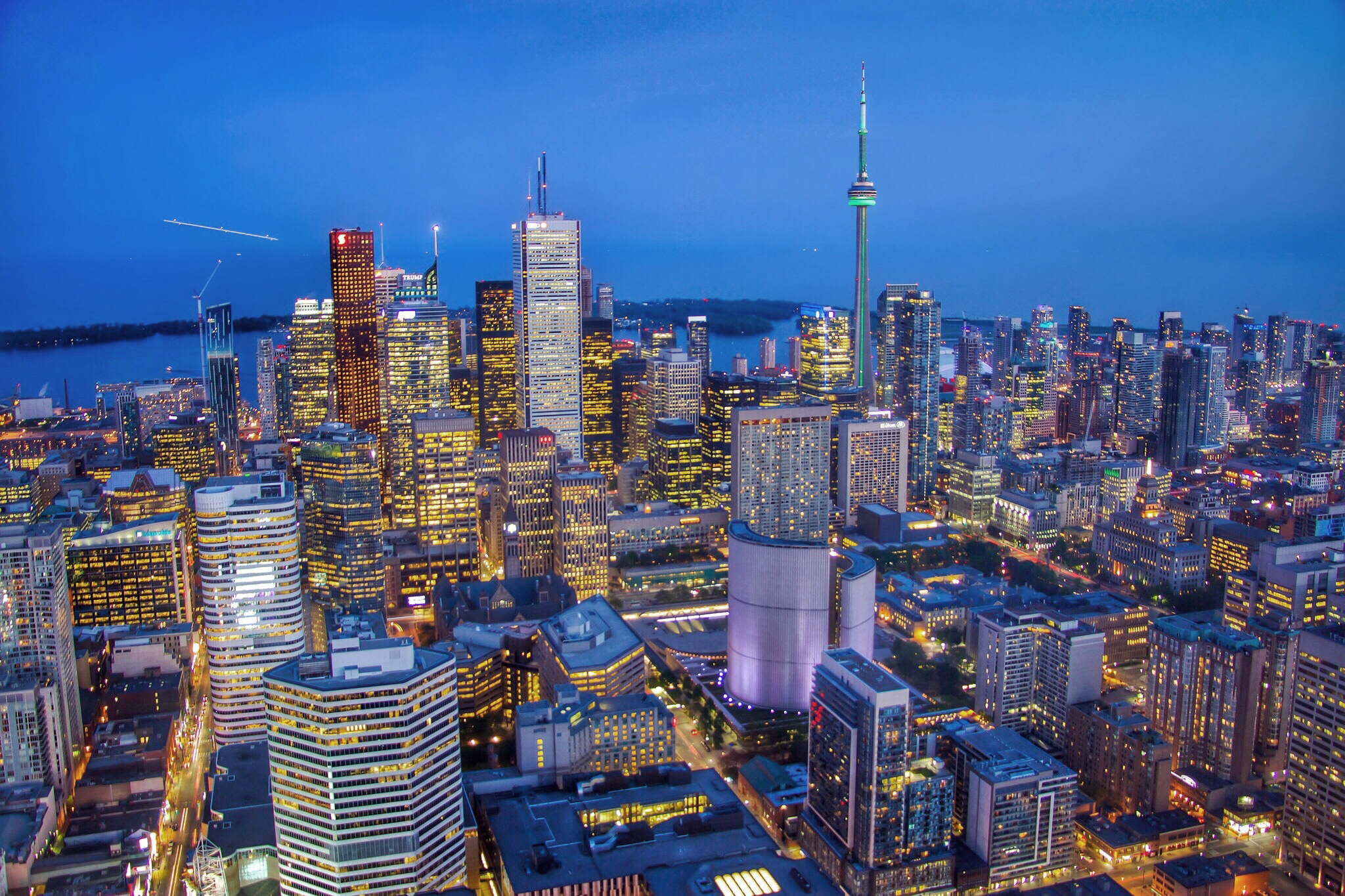 Toronto from above at night